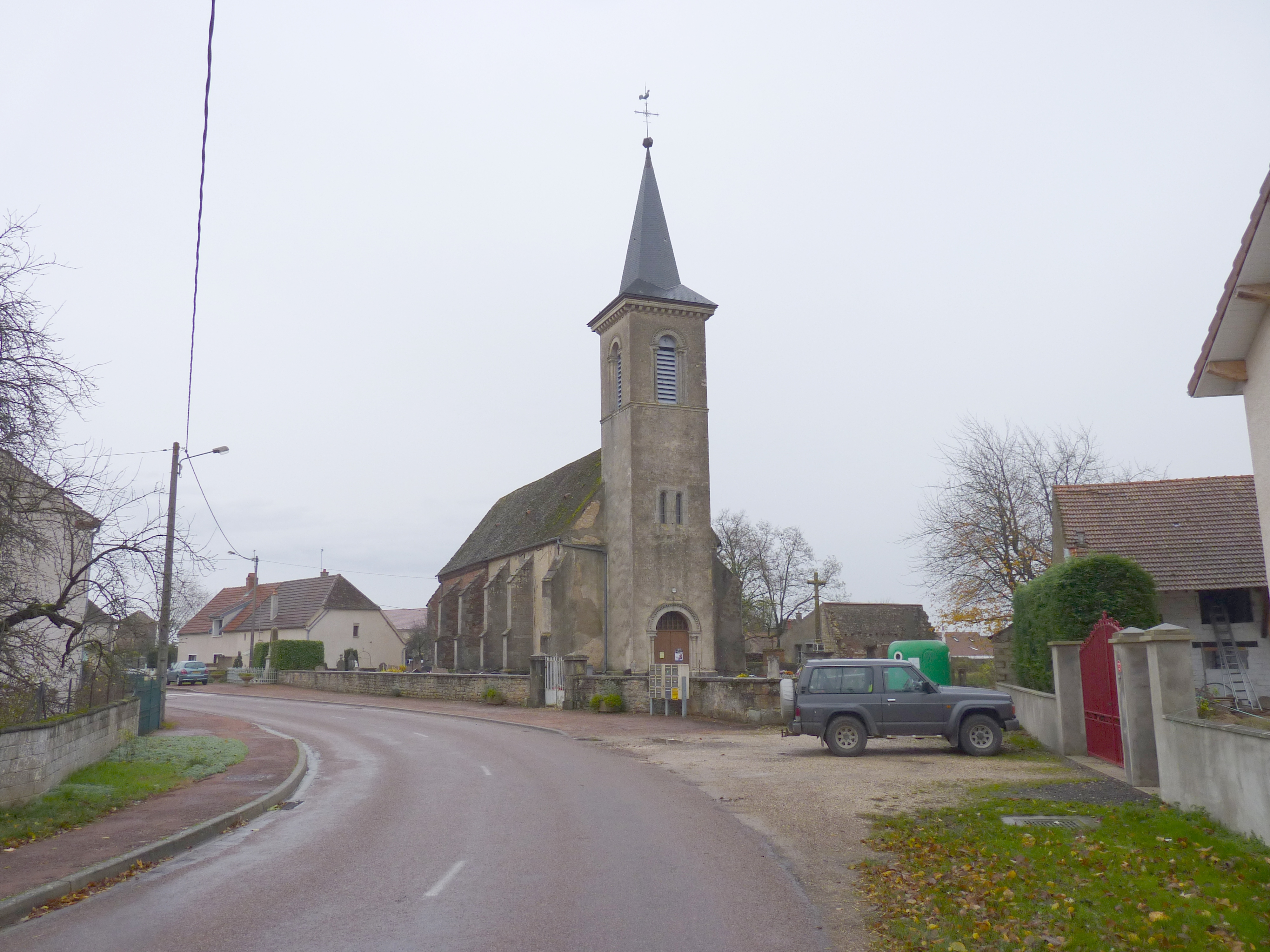 Parish church Saint-Pierre in Tichey (Côte d'Or, Burgundy, France)